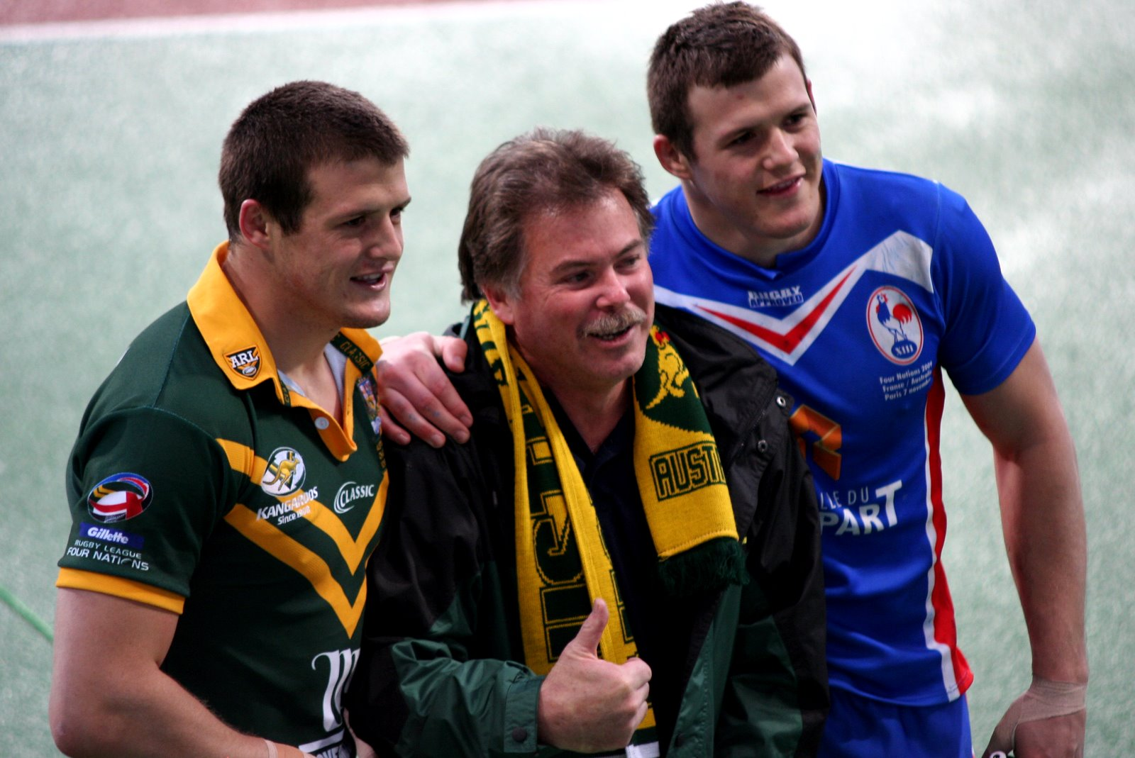 Josh Morris, Steve Morris and Brett Morris following the France versus Australia Rugby League Four Nations match in 2009 in Paris.